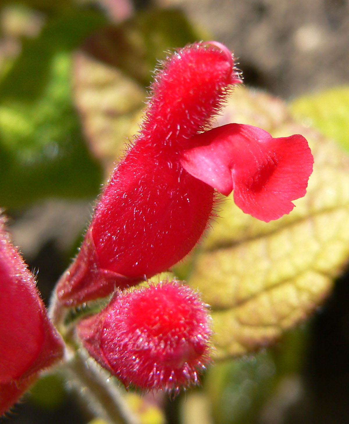 Salvia pulchella at the University of California Botanical Garden, Berkeley, California